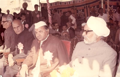 Shri Ramniwas Mirdha (Central Minister of India), Justice Shri Kan Singh Parihar, Shri Haridev Joshi (CM Rajasthan) and Sardar Shri Swarn Singh (Central Minister of India) at "All Rajasthan Kishan Sammelan" in Jodhpur 1973.